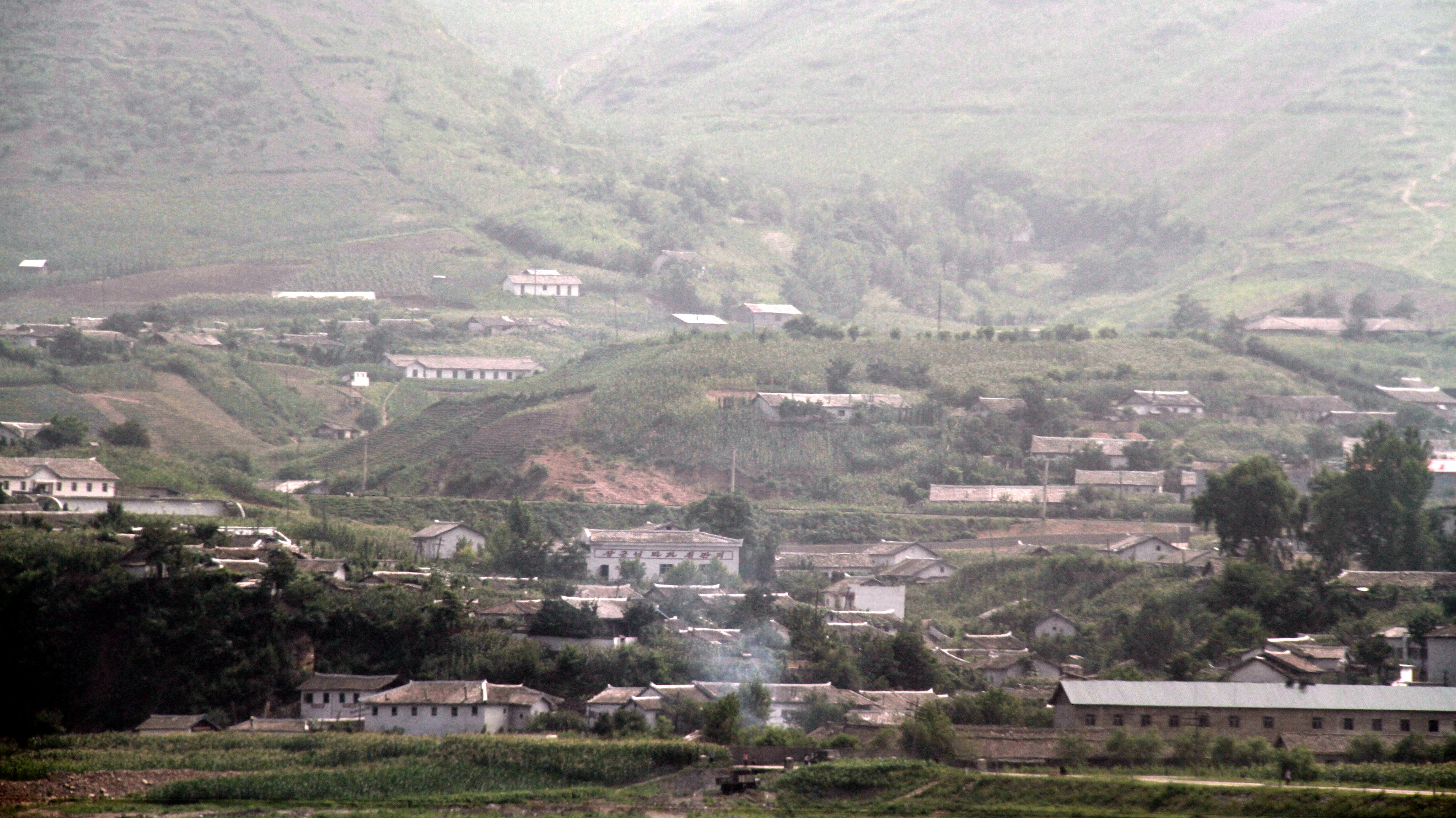 Photograph of the North Korean town of Manpo seen from the Ji'an Yalu River Border Railway Bridge between Ji'an, Jilin Province, China and Manp'o, Chagang Province, North Korea.